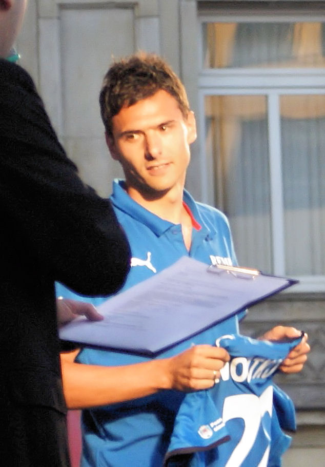 Grzegorz Wojtkowiak - Lech Poznań